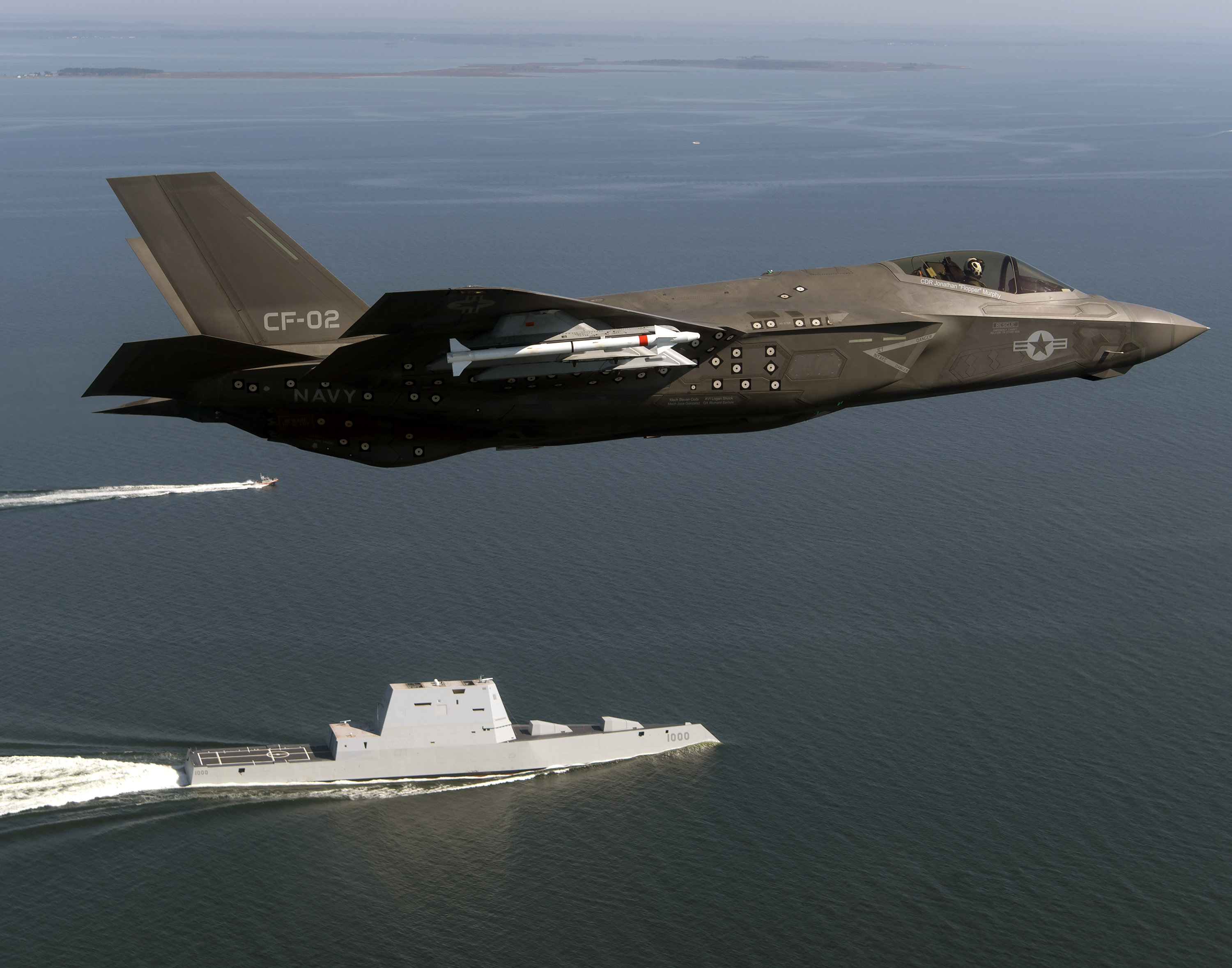 CHESAPEAKE BAY, Md. (Oct. 17, 2016) Aircraft CF-02, an F-35 Lightning II Carrier Variant attached to the F-35 Pax River Integrated Test Force (ITF) assigned to Air Test and Evaluation Squadron (VX) 23 completes a flyover of the guided-missile destroyer USS Zumwalt (DDG 1000). (U.S. Navy photo by Andy Wolfe/Released)161017-N-VT045-001